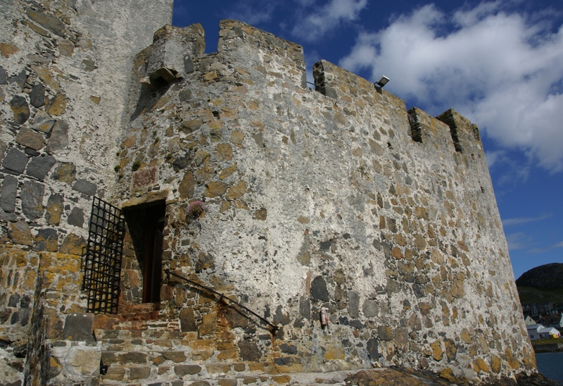 Kisimul Castle, Barra, Scotland - entrance